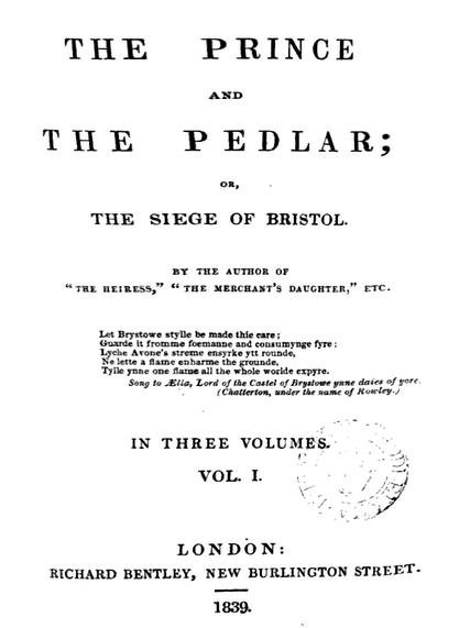 The Prince and the Pedlar by Ellen Pickering title page